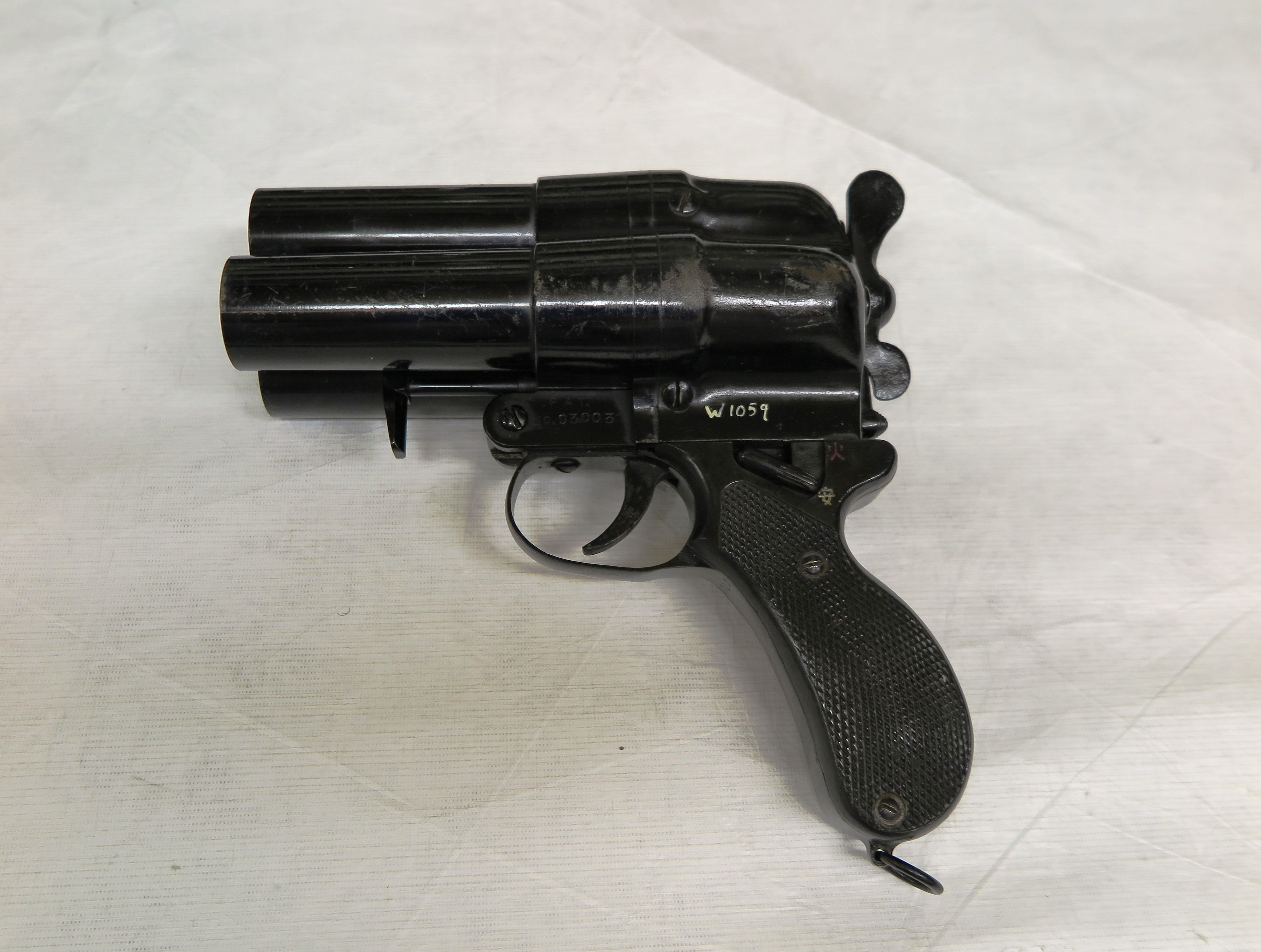 Japanese Naval triple barrel flare pistol, WW2 flare pistol- triple smoothbore four inch barrels (slightly tapered externally); 26.6mm calibre; steel with baked black enamel finish; two-piece black plastic grips; lanyard ring at base of grip; opens with spring-loaded under-barrel release lever; butterfly-type cocking lever at rear of body over a chamber-select lever; safety on left-hand side of body; markings- patent number on left front of body under barrel PAT. - No. 93003 serial number with Japanese arsenal marking on right hand side of frame, Kakura Rikugun Zoheisho (Kokura Army Arsenal)- 3881 Japanese character marks (2) near safety catch Manufacturer- unknown, Japan, WW2